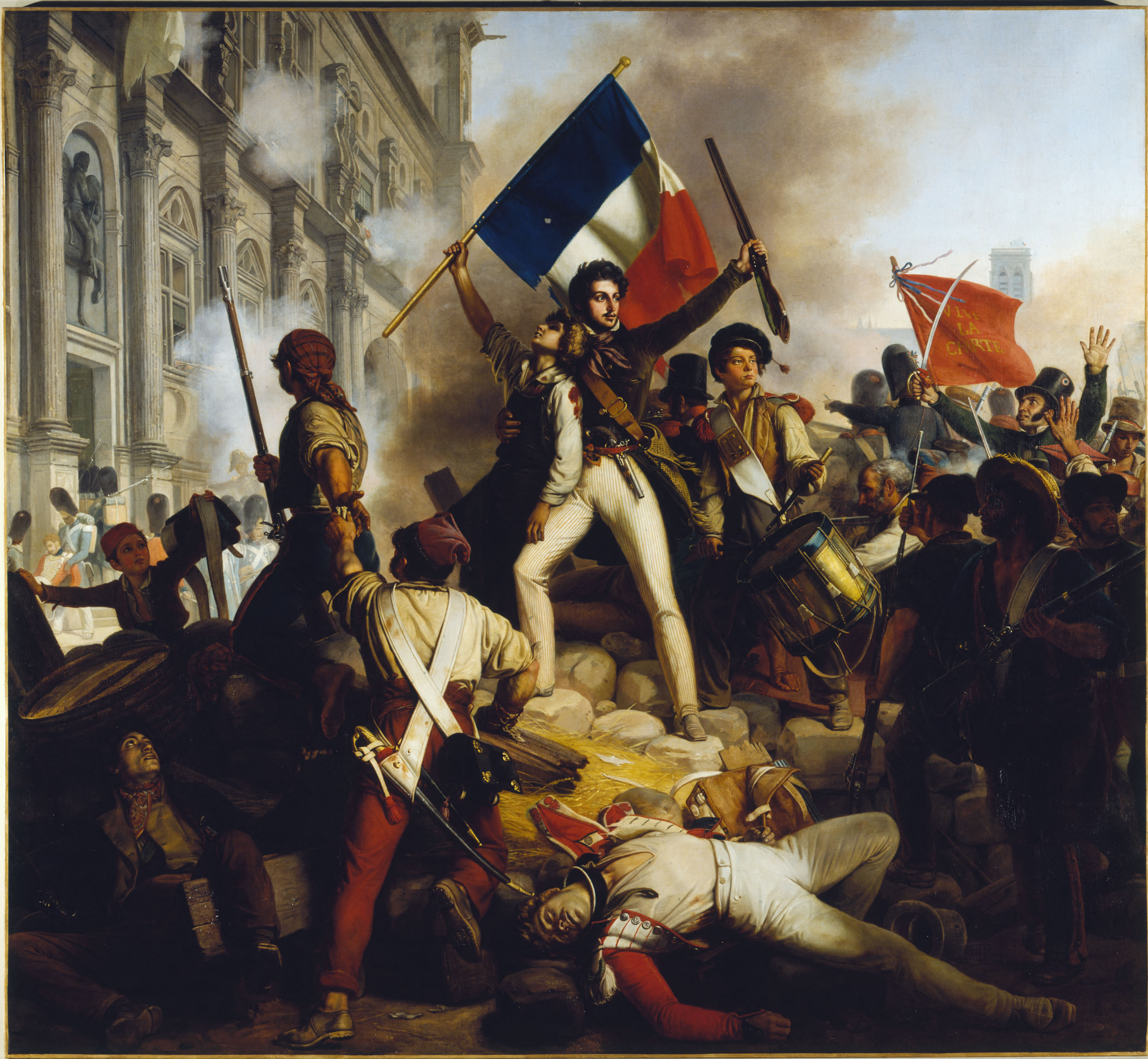 An armed crowd is on the barricades in front of a building. A wounded child, backed by an armed companion, brandishing a tricolor flag.